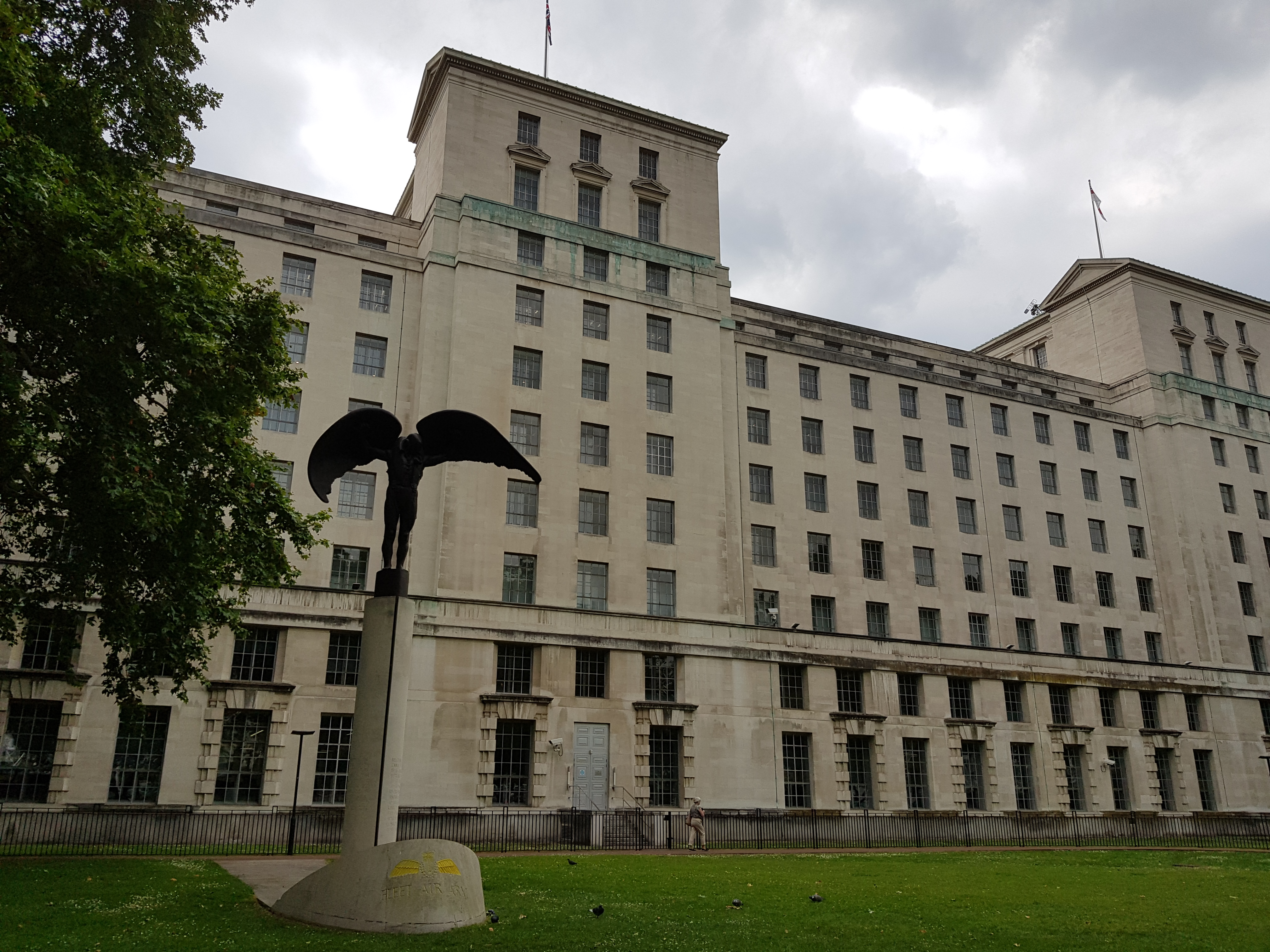 Ministry of Defence Building